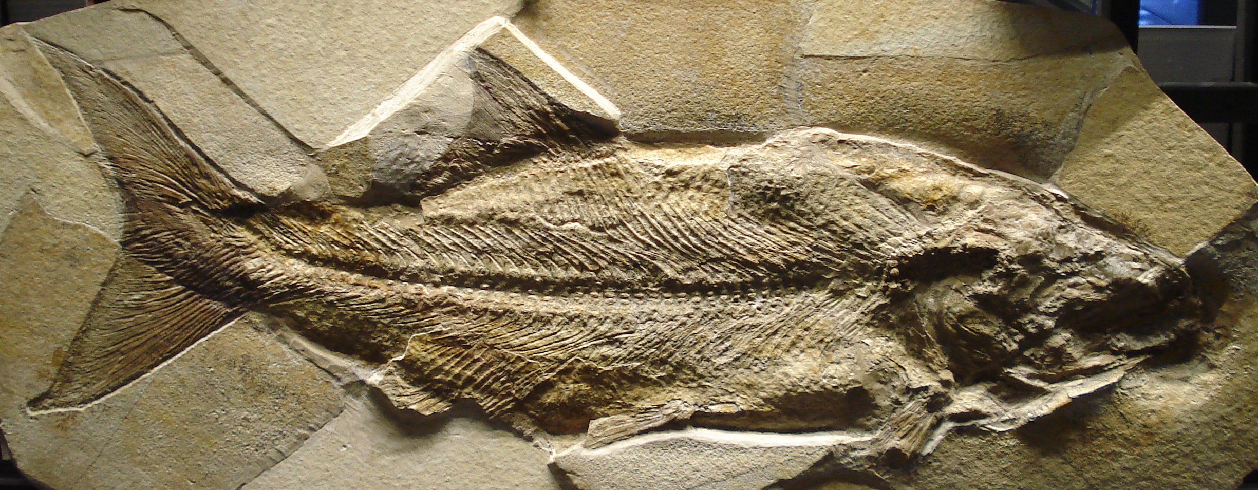 fossil of ionoscopus